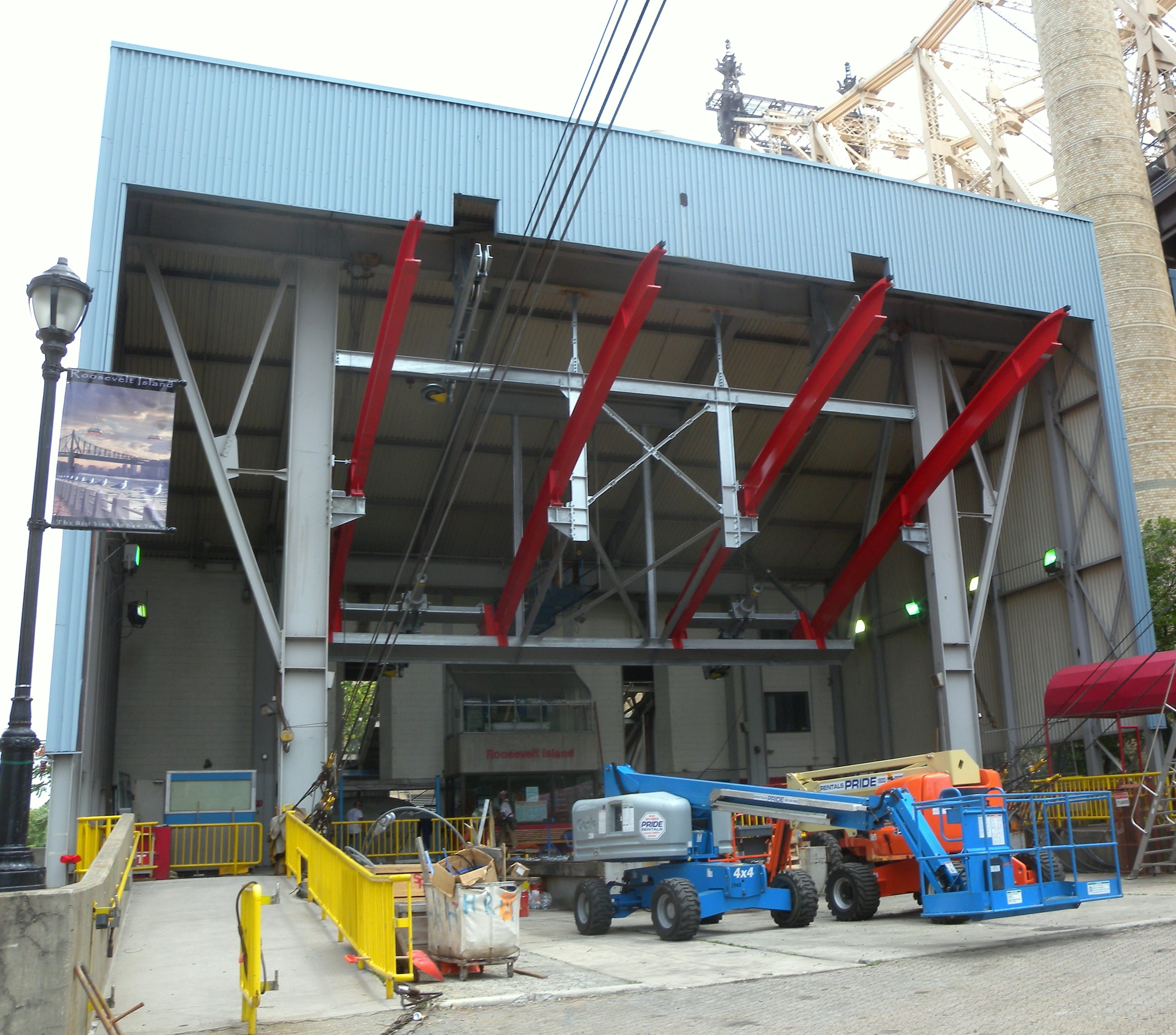 Looking southeast at tram station, cars absent and construction equipment present during renovation, on a mostly cloudy midday.